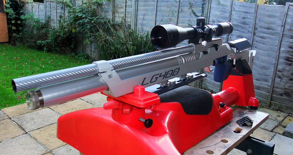 Walther LG400 modified to 16J for HFT (Blue woodwork and longer air cylinder)